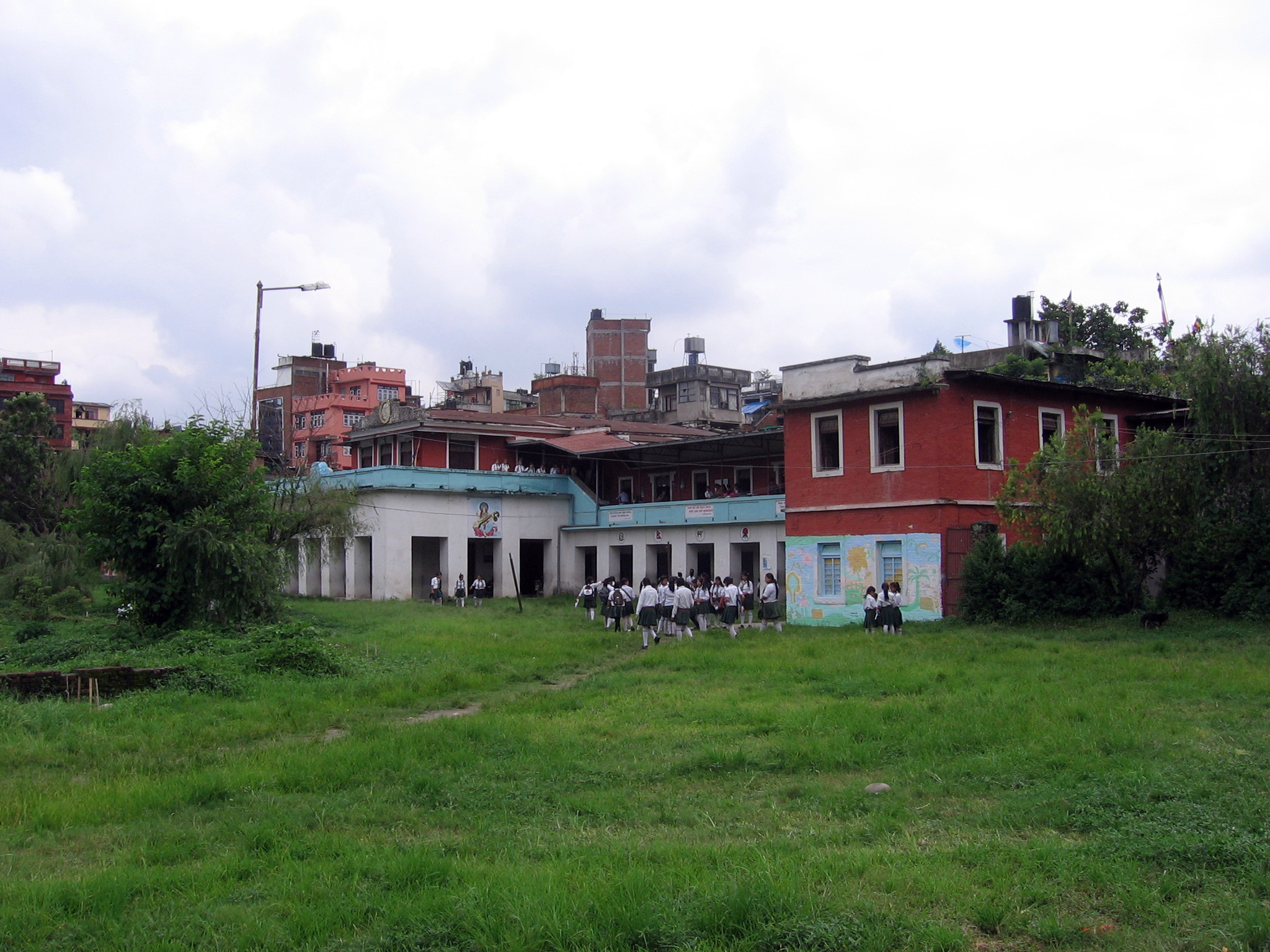 Kanya Mandir girls' school and historic Ikha Pokhari pond in Kathmandu, Nepal.